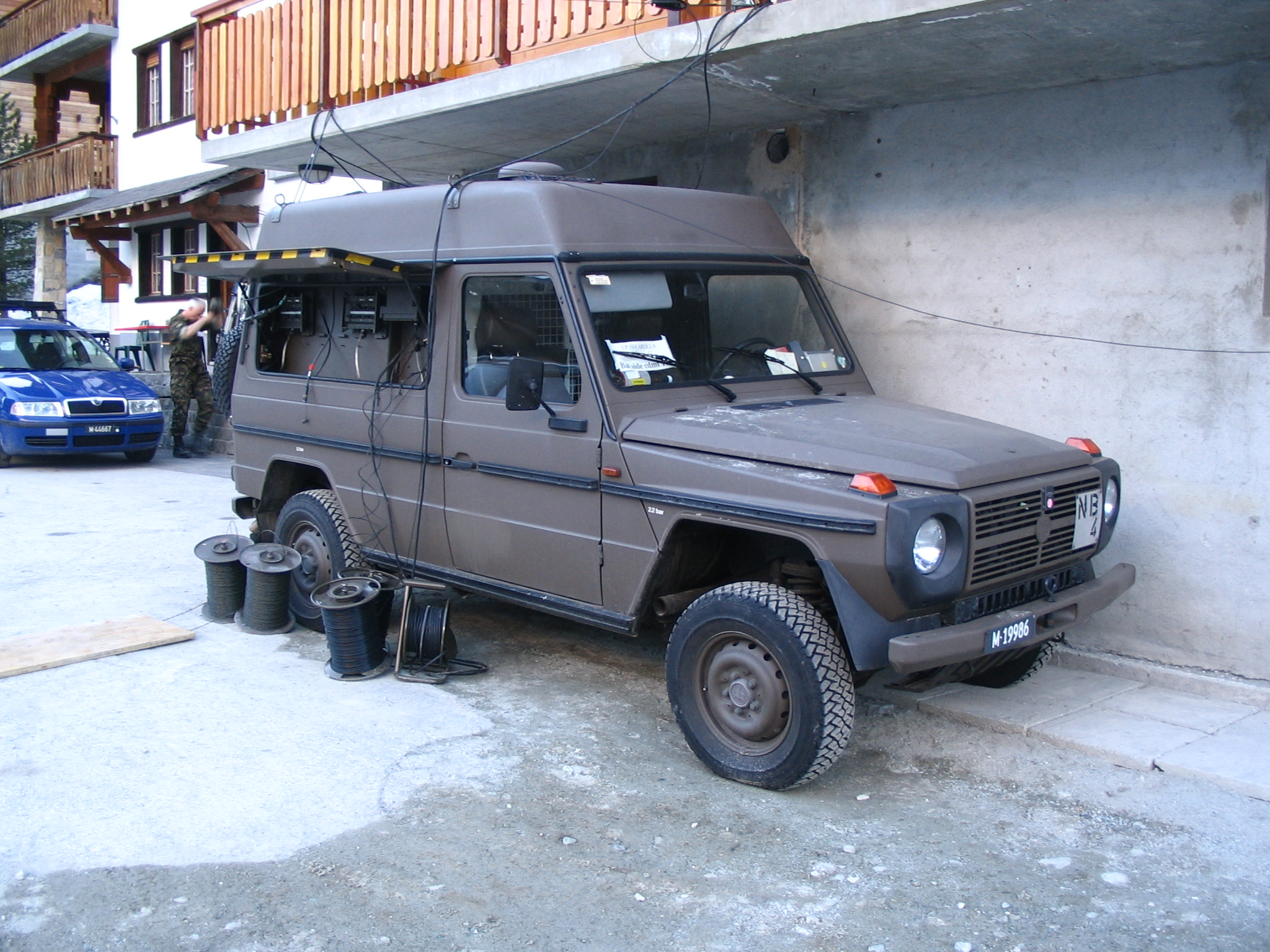 Vehicle (Puch) of the transmission troops of the Swiss army, aka "Mobile commutator". Picture taken at Arolla, for the "Patrouille des glaciers 2006". Author : Dake